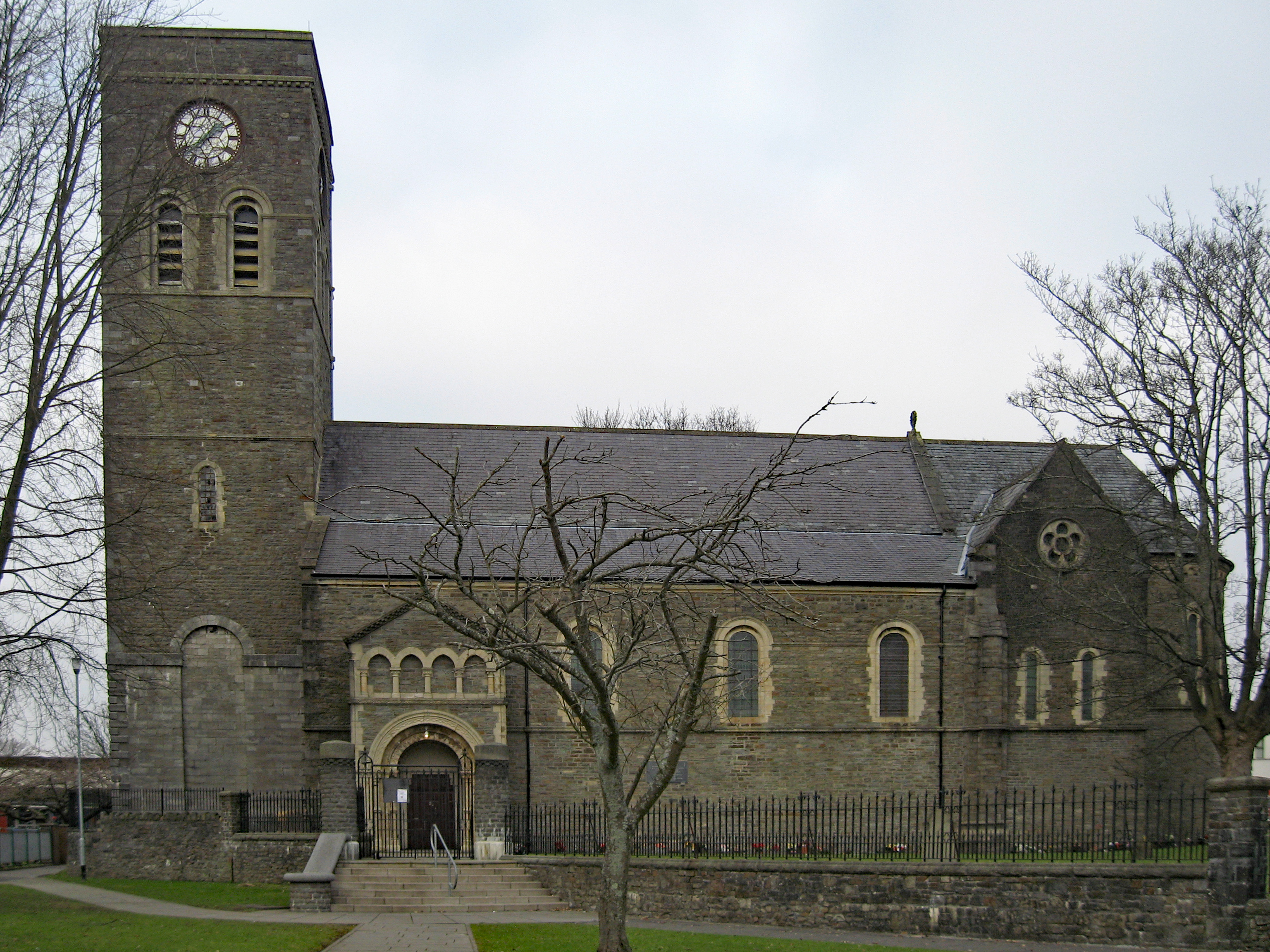 Photograph of St Tydfil's Church, Merthyr Tydfil